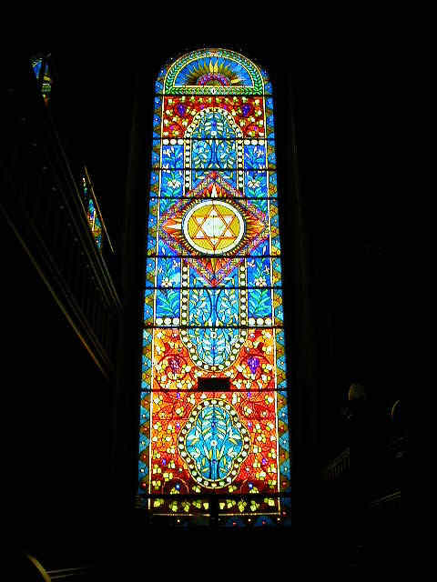 A newly refurbished stained glass window of the Bialystoker Synagogue in the Lower East Side neighborhood of Manhattan, New York City